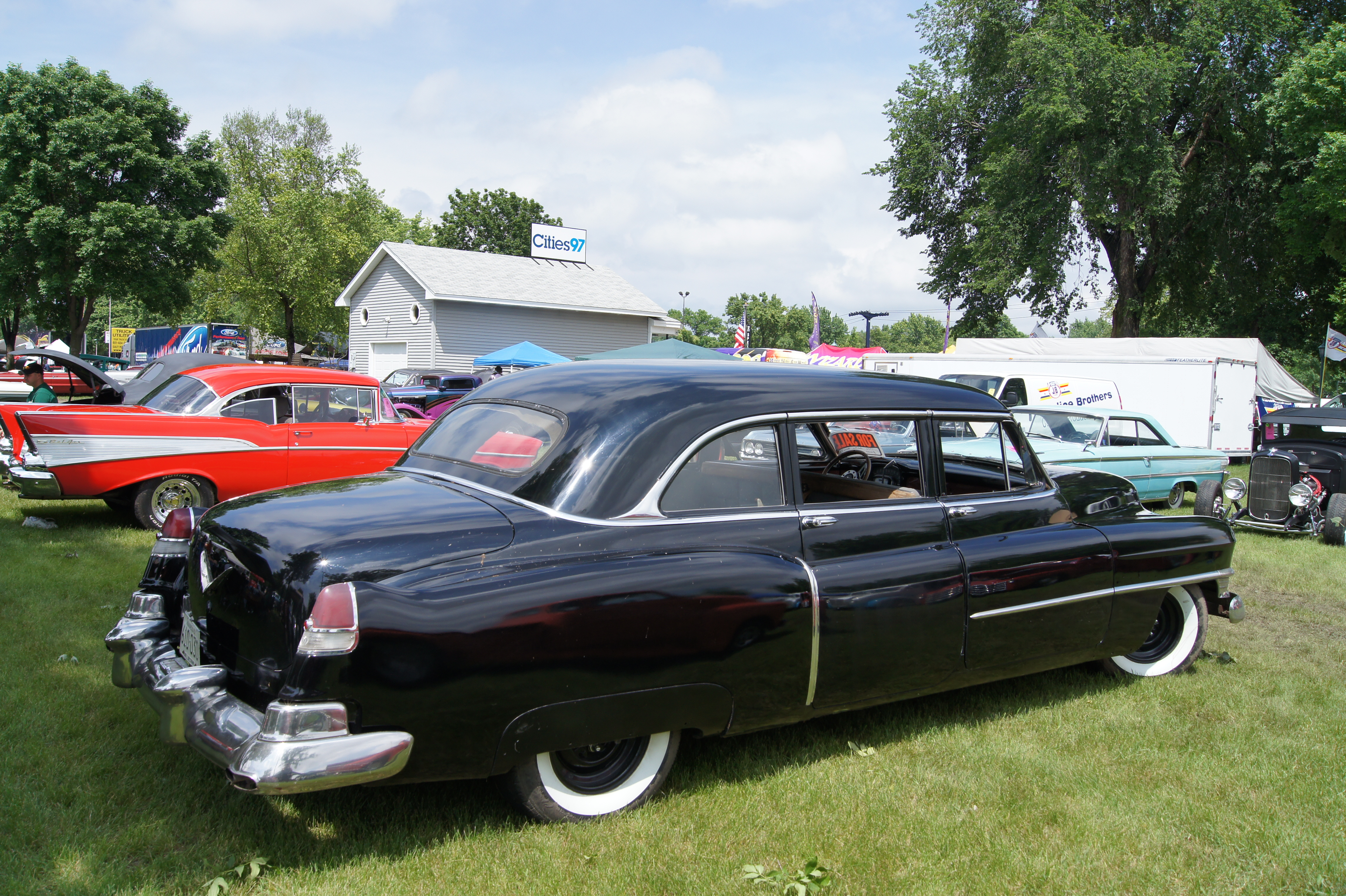 MSRA “BACK TO THE 50′s” 40th ANNIVERSARY June 21-23, 2013 State Fairgrounds St. Paul Minnesota More Car Pictures